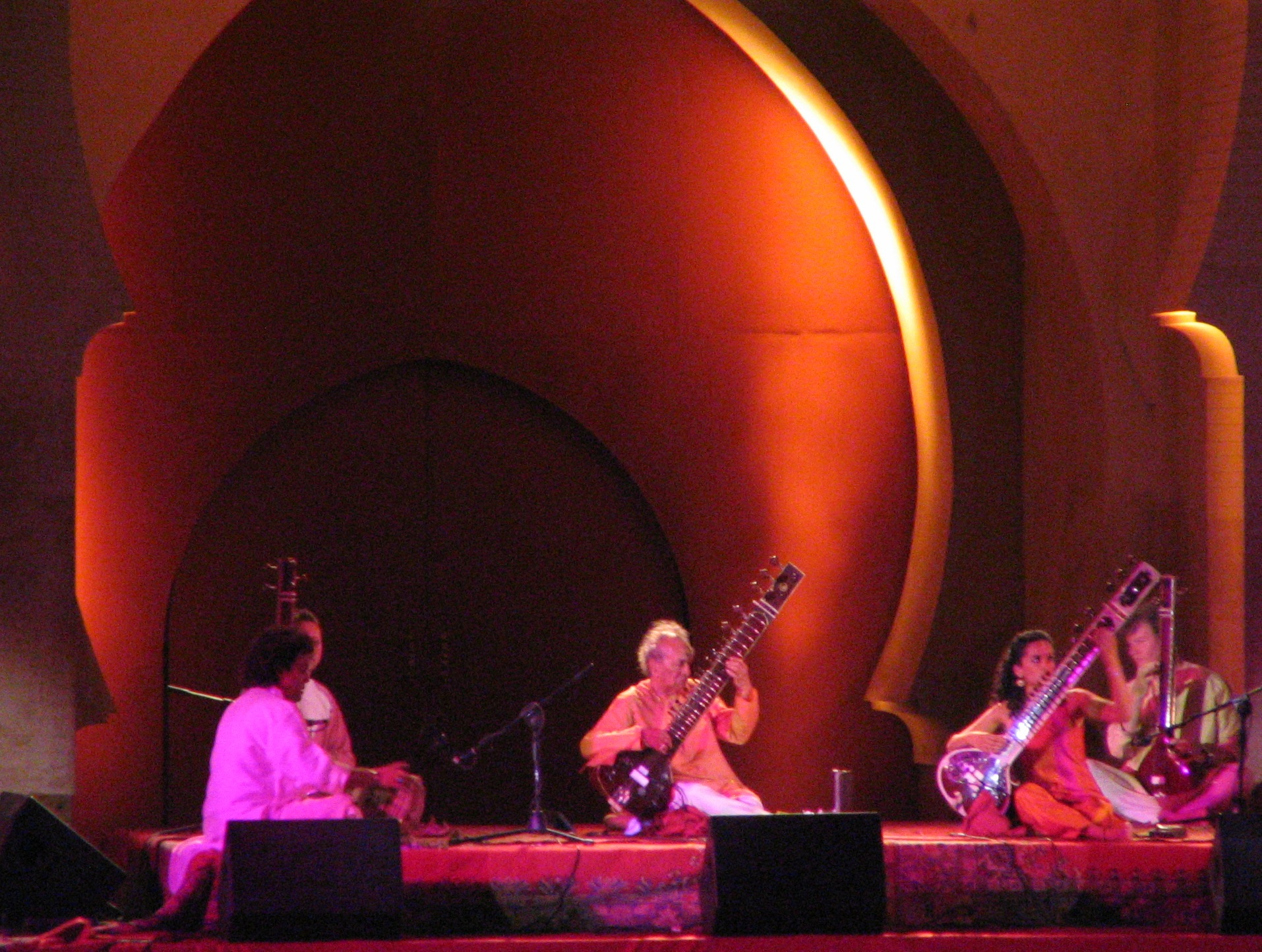 Ravi Shankar with Anoushka Shankar at the World Sacred Music Festival in Fes, Morocco, in June 2005